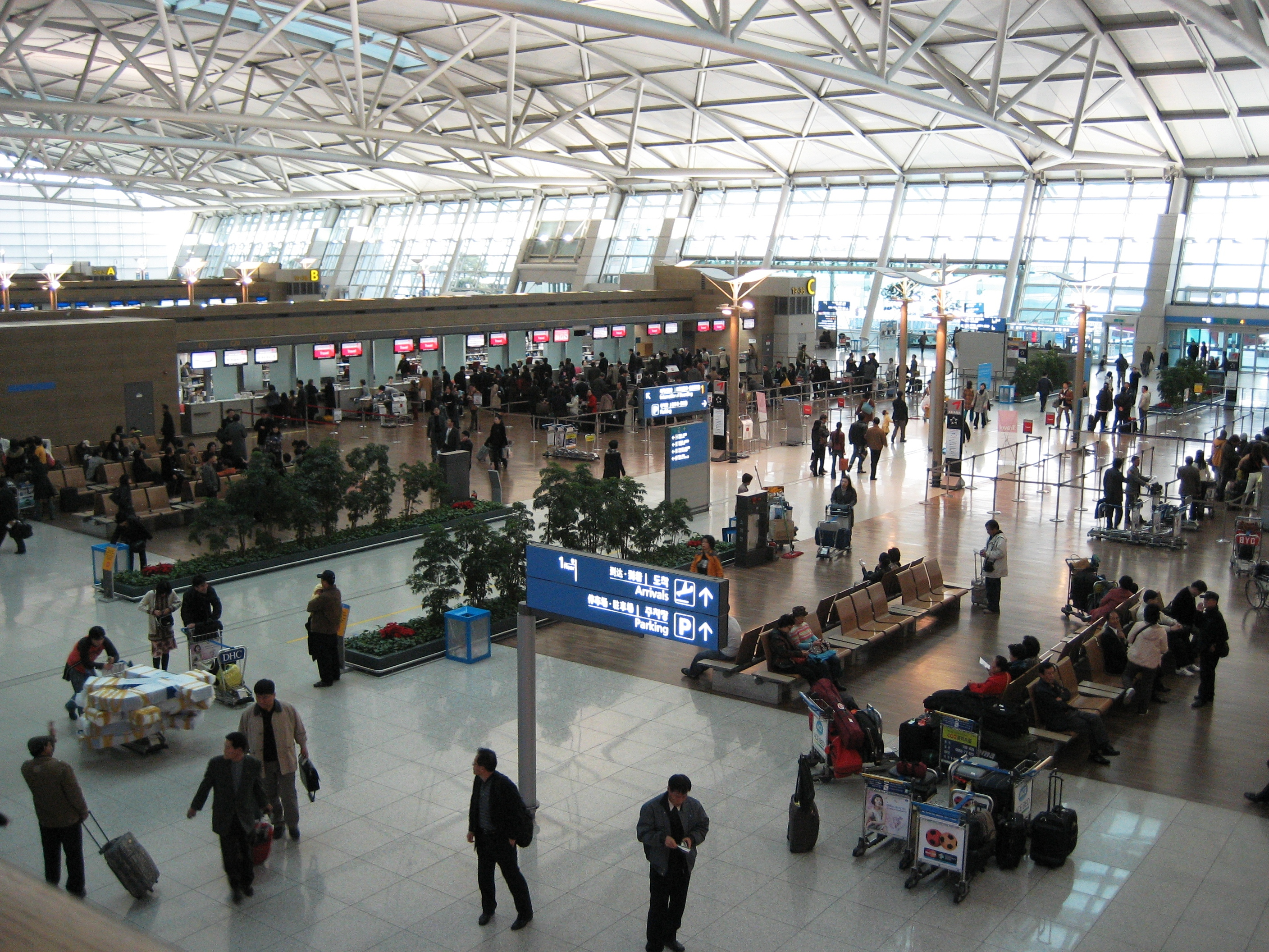 Incheon International Airport,Check-in counters in Deperture lobby.